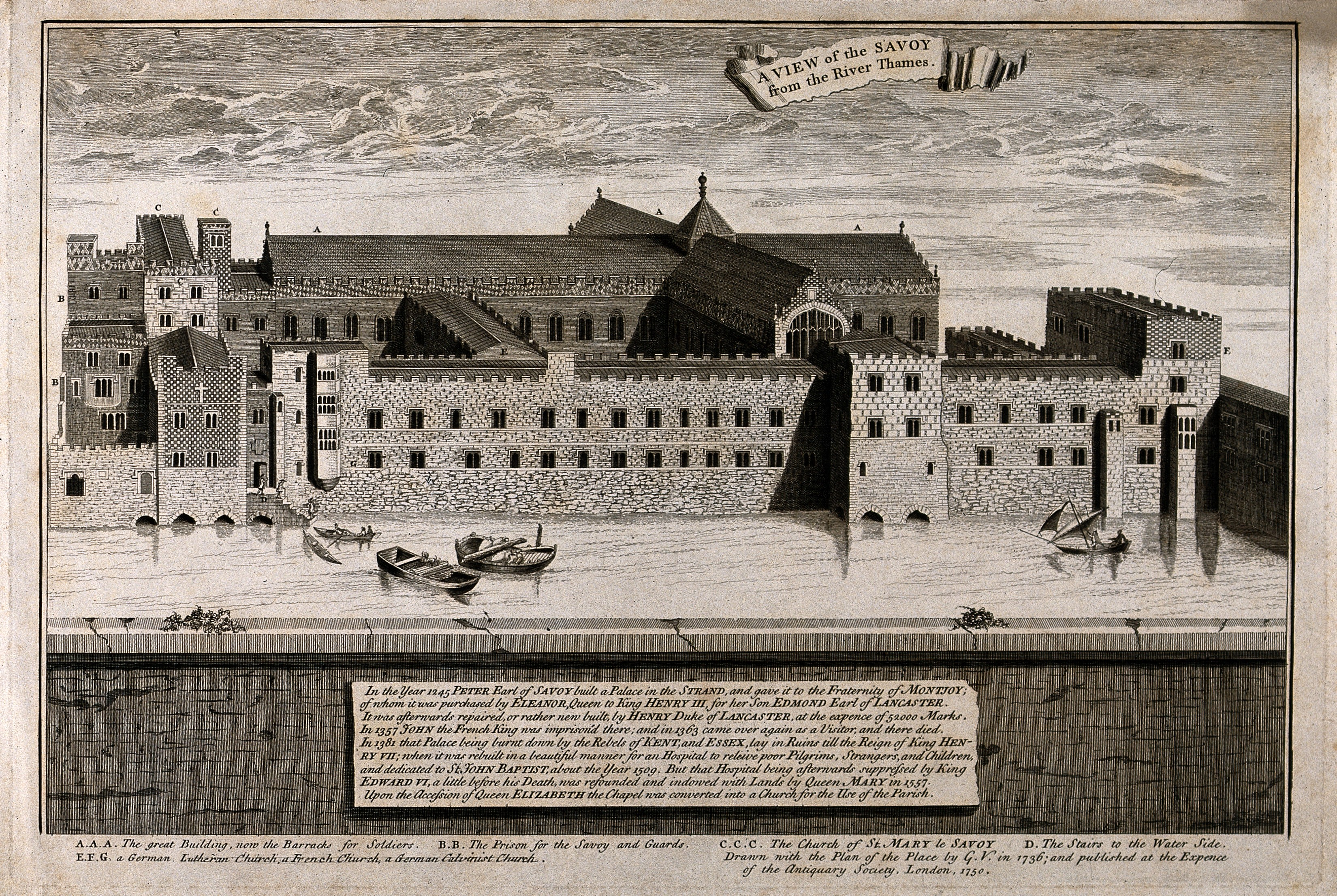 The church and hospital of Savoy, London: bird's-eye view from Southwark. Engraving by G. Vertue, 1750, after himself, 1736. Iconographic Collections Keywords: ic; savoy; George Vertue